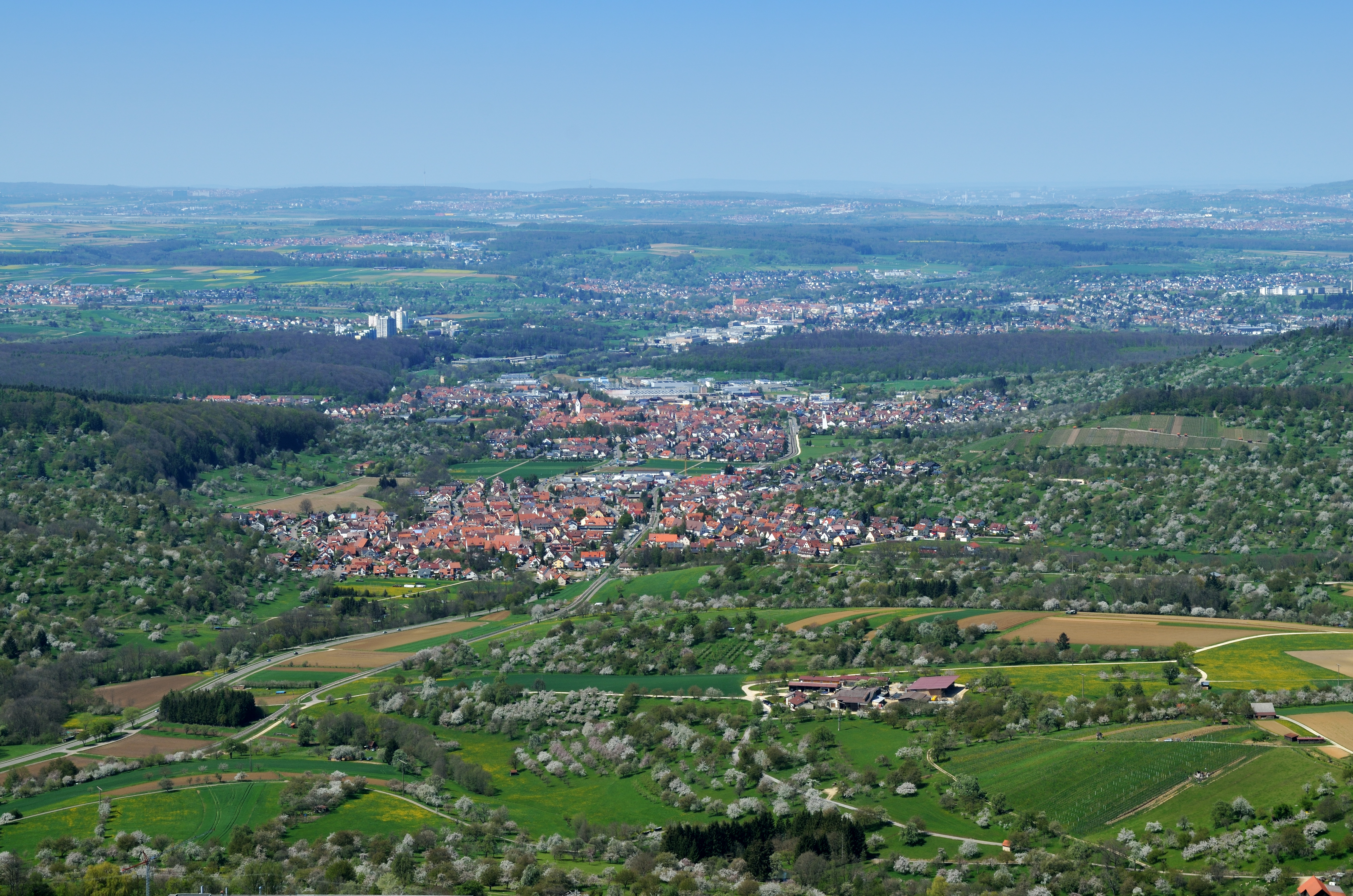 Frickenhausen as seen from the Hohenneuffen Castle.